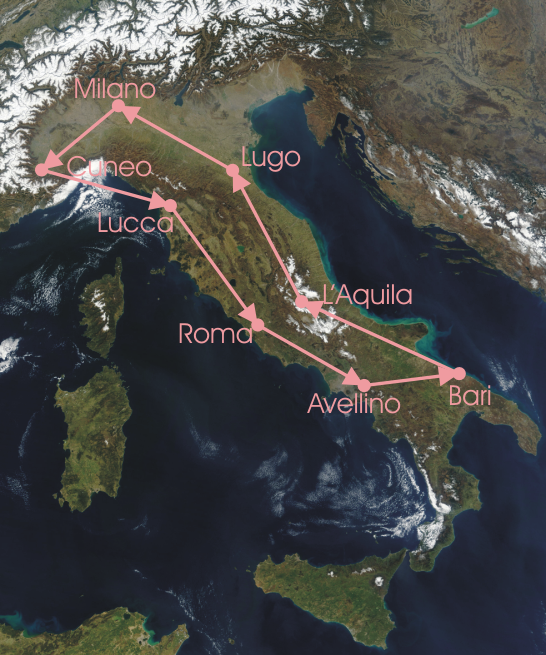 Map of Italy highlighting the stages of 1914 Giro d'Italia